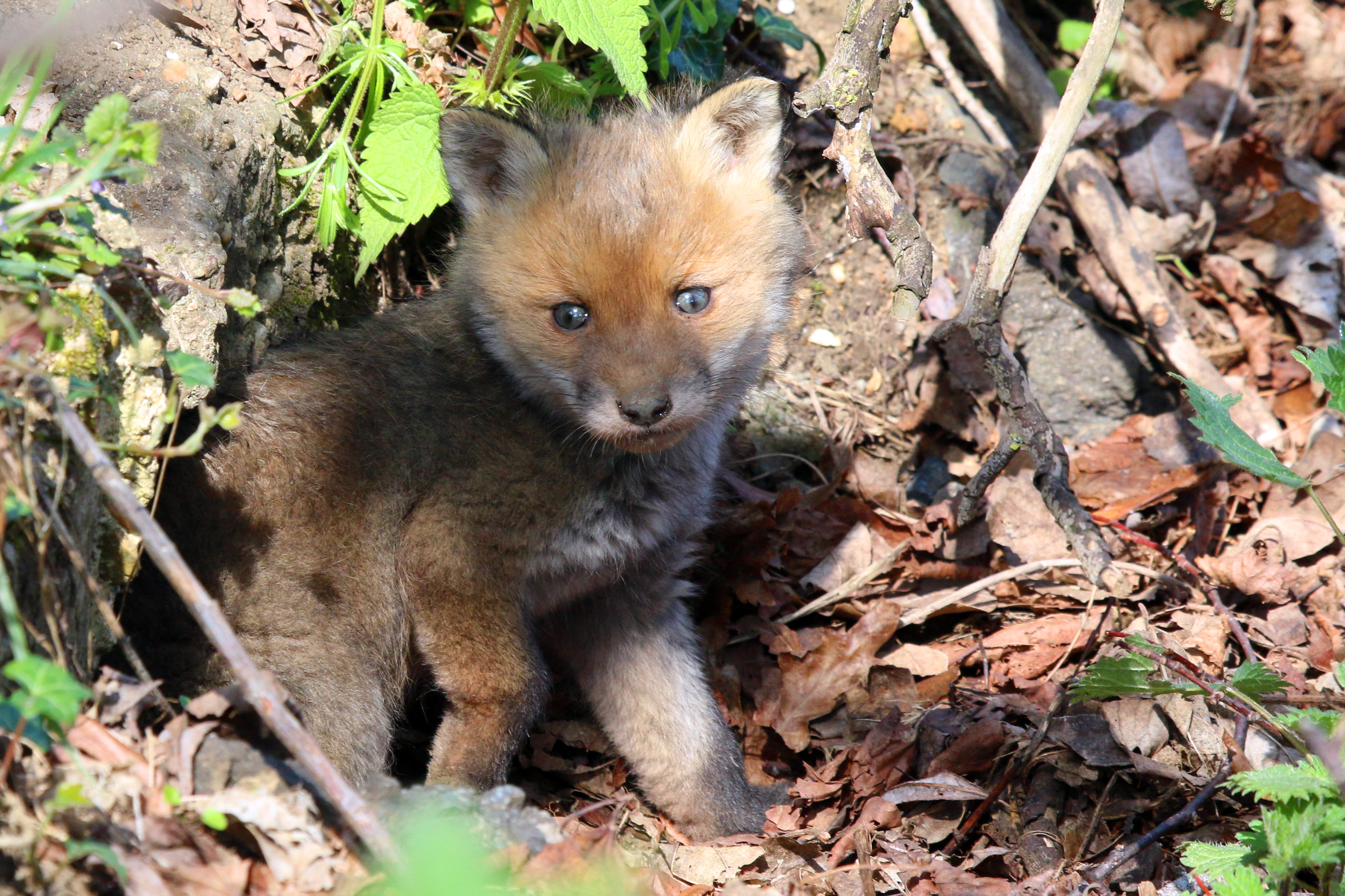 Red fox kit (Vulpes vulpes) emerging from a burrow, North Abingdon, Oxfordshire